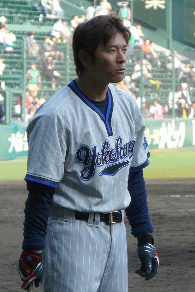 Shigeru Morikasa, outfielder of the Yokohama BayStars, at Hanshin Koshien Stadium.